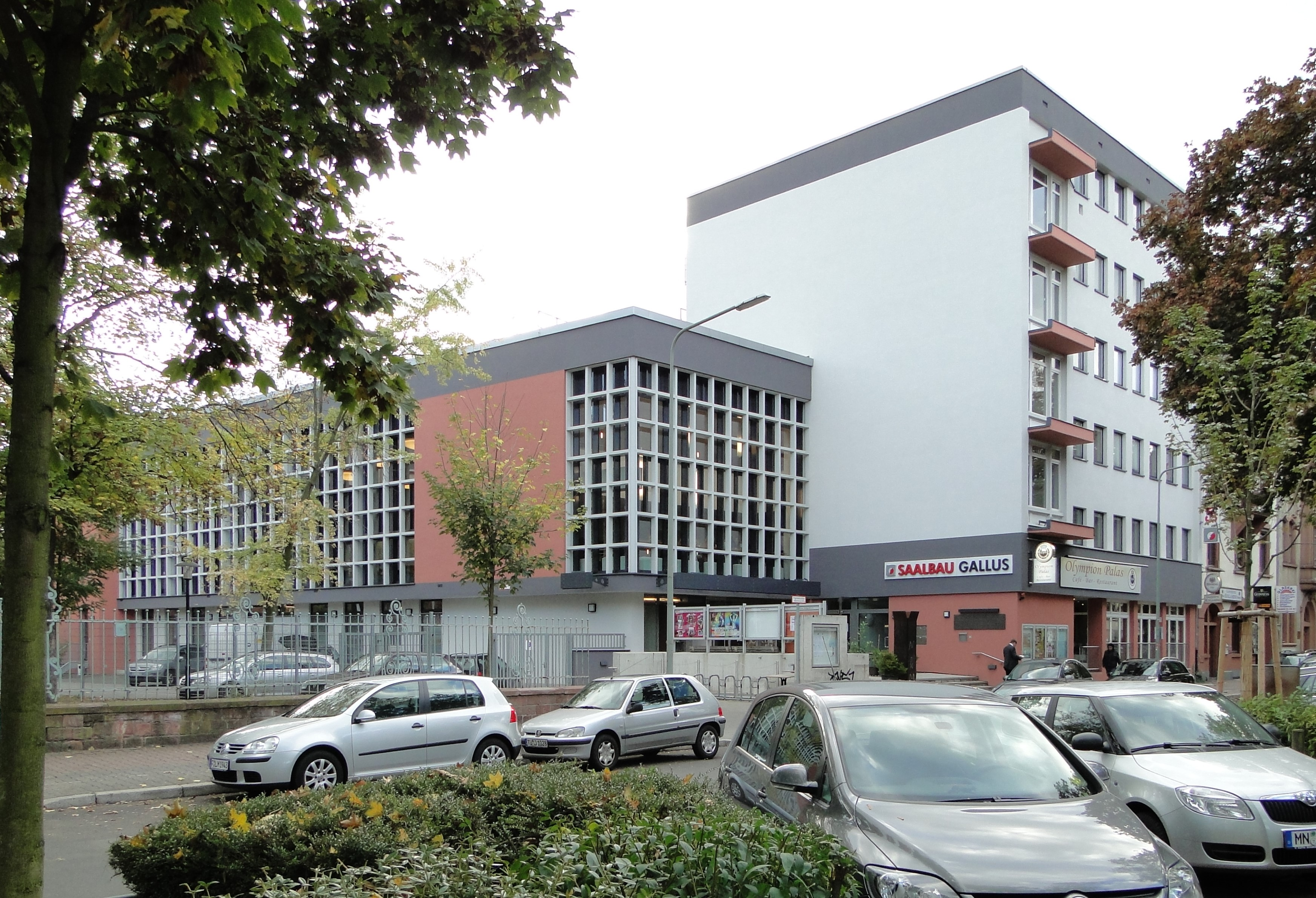 "Buergerhaus Gallus" at Frankenalle in Frankfurt am Main-Gallus. Courthouse for the first "Frankfurt Auschwitz Trial" during 1963-65.